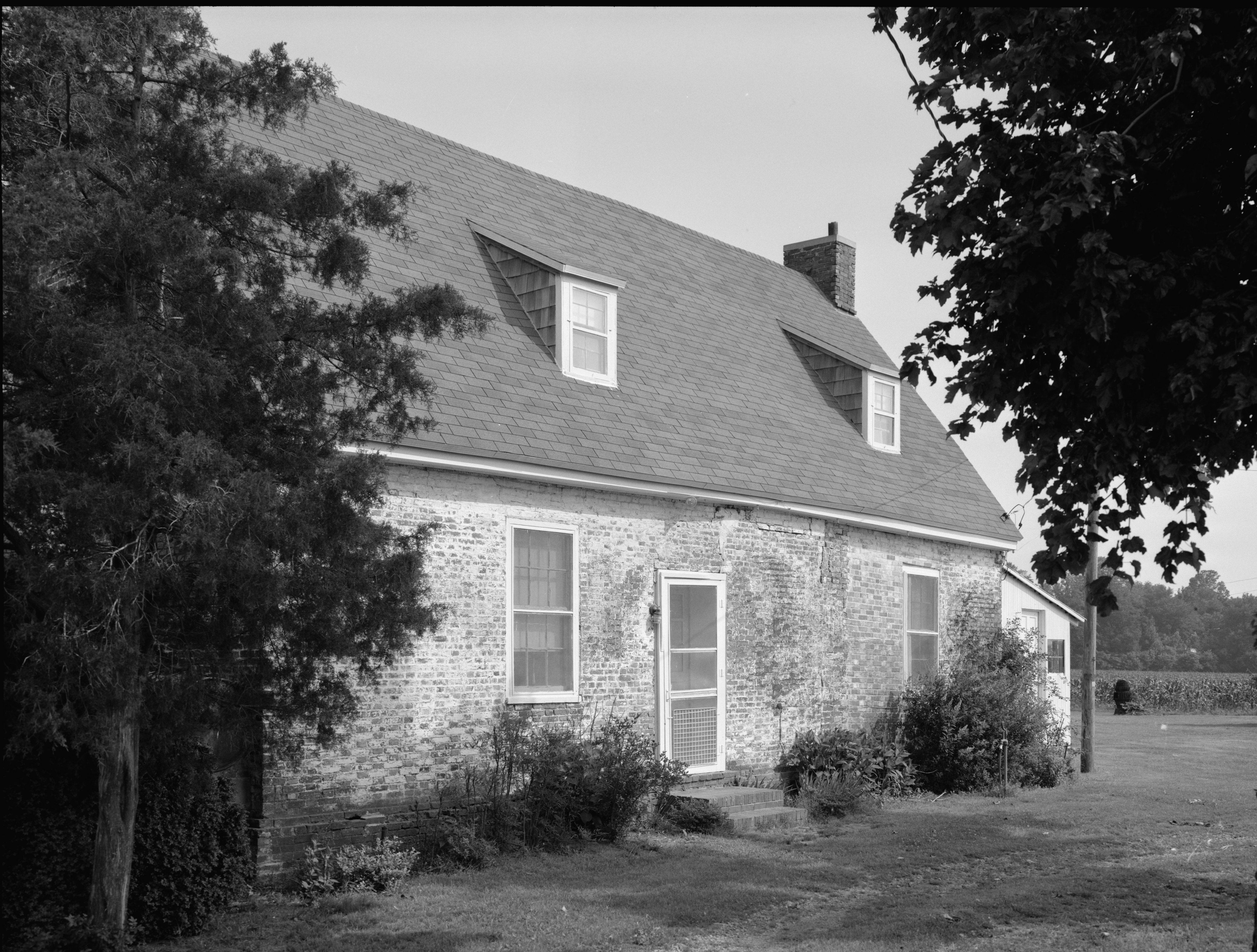 SOUTHEAST FRONT FROM SOUTH - Cannon's Savannah, Atlanta-Seaford Road, Seaford, Sussex County, DE